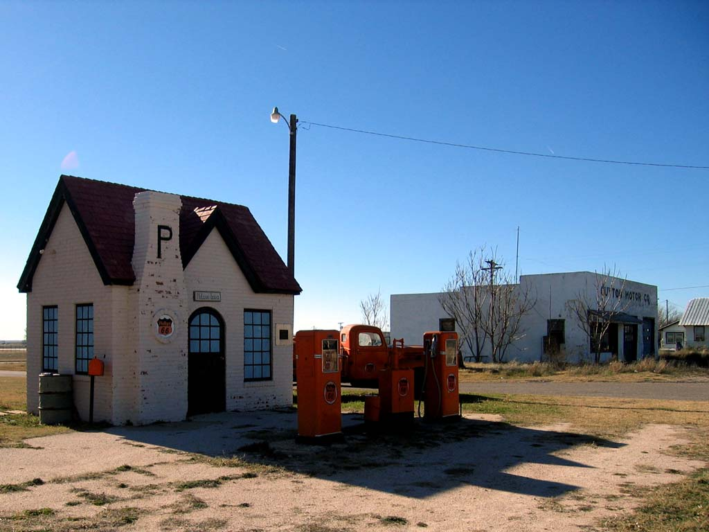 Phillips 66 Gas Station, 218 W. First St., McLean, Texas; opened in 1929 as the first Phillips gas station in Texas